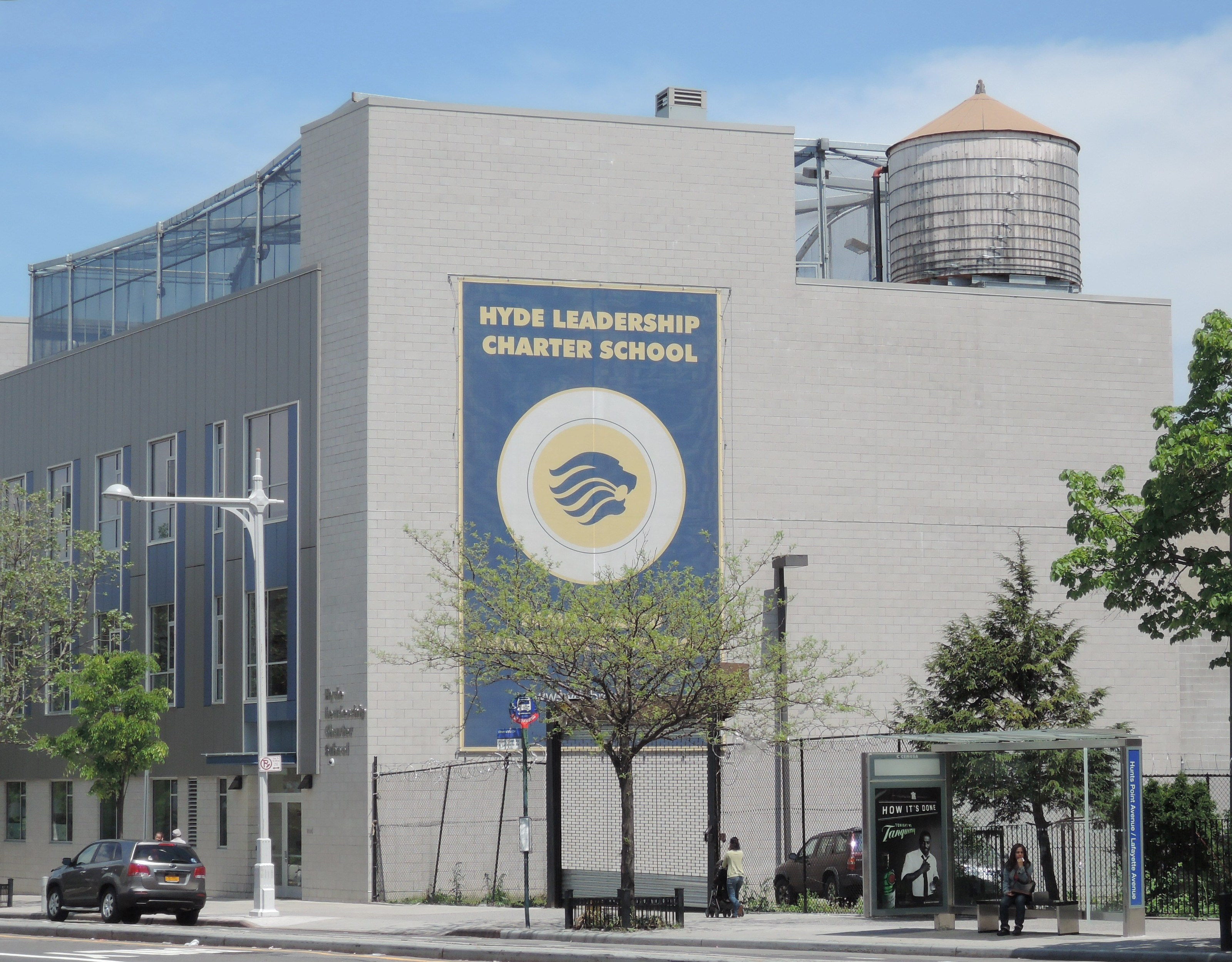 Looking north, zoomed, at school on a sunny midday.